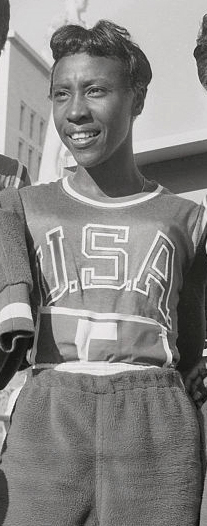 Left-right: Wilma Rudolph, Lucinda Williams, Barbara Jones and Martha Hudson at the Rome Olympics